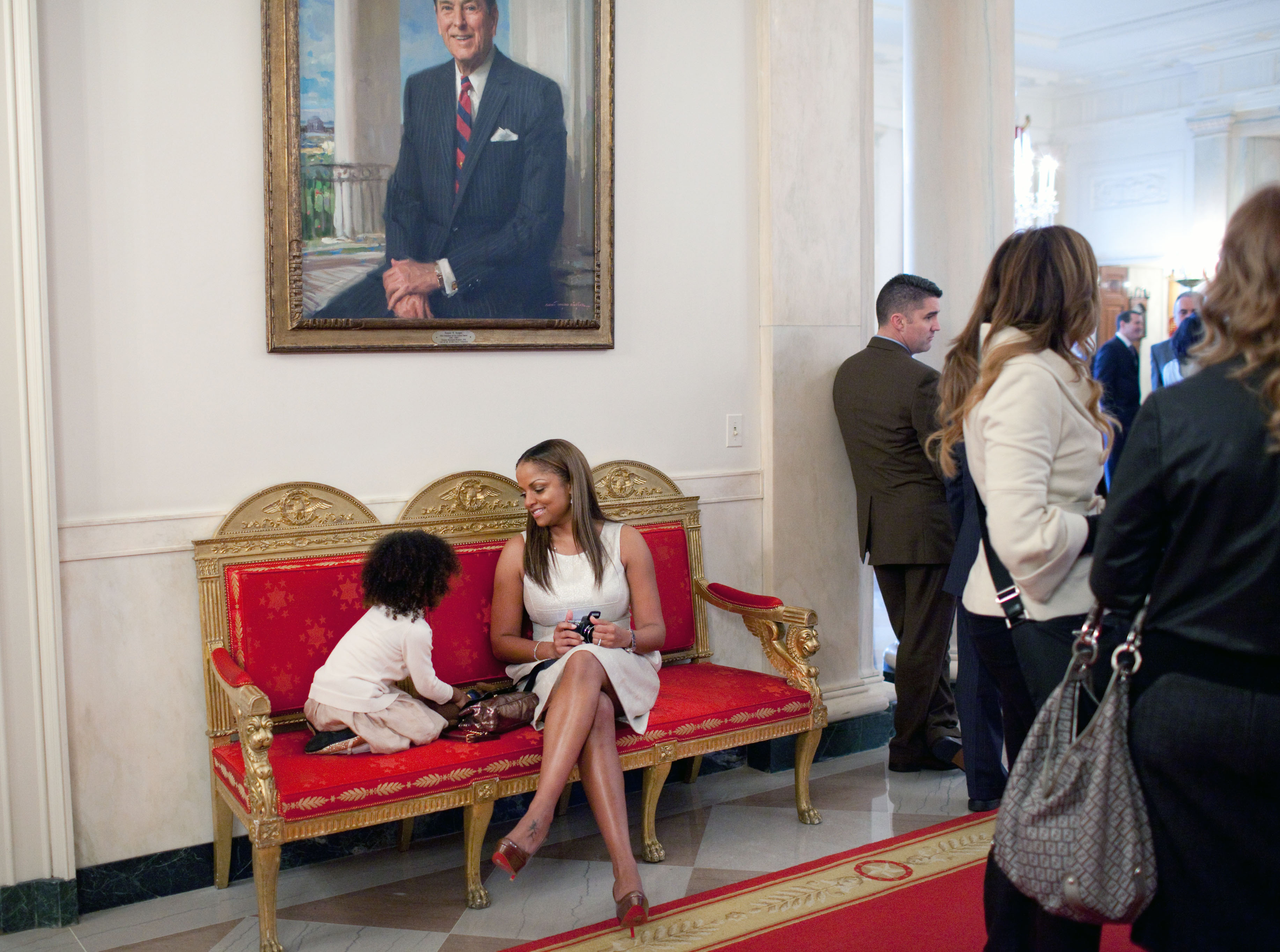 Candace Fisher, wife of Los Angeles Lakers guard Derek Fisher, and their daughter Tatum wait for the start of a ceremony honoring the 2008-2009 NBA basketball champion LA Lakers in the East Room of the White House, January 25, 2010.